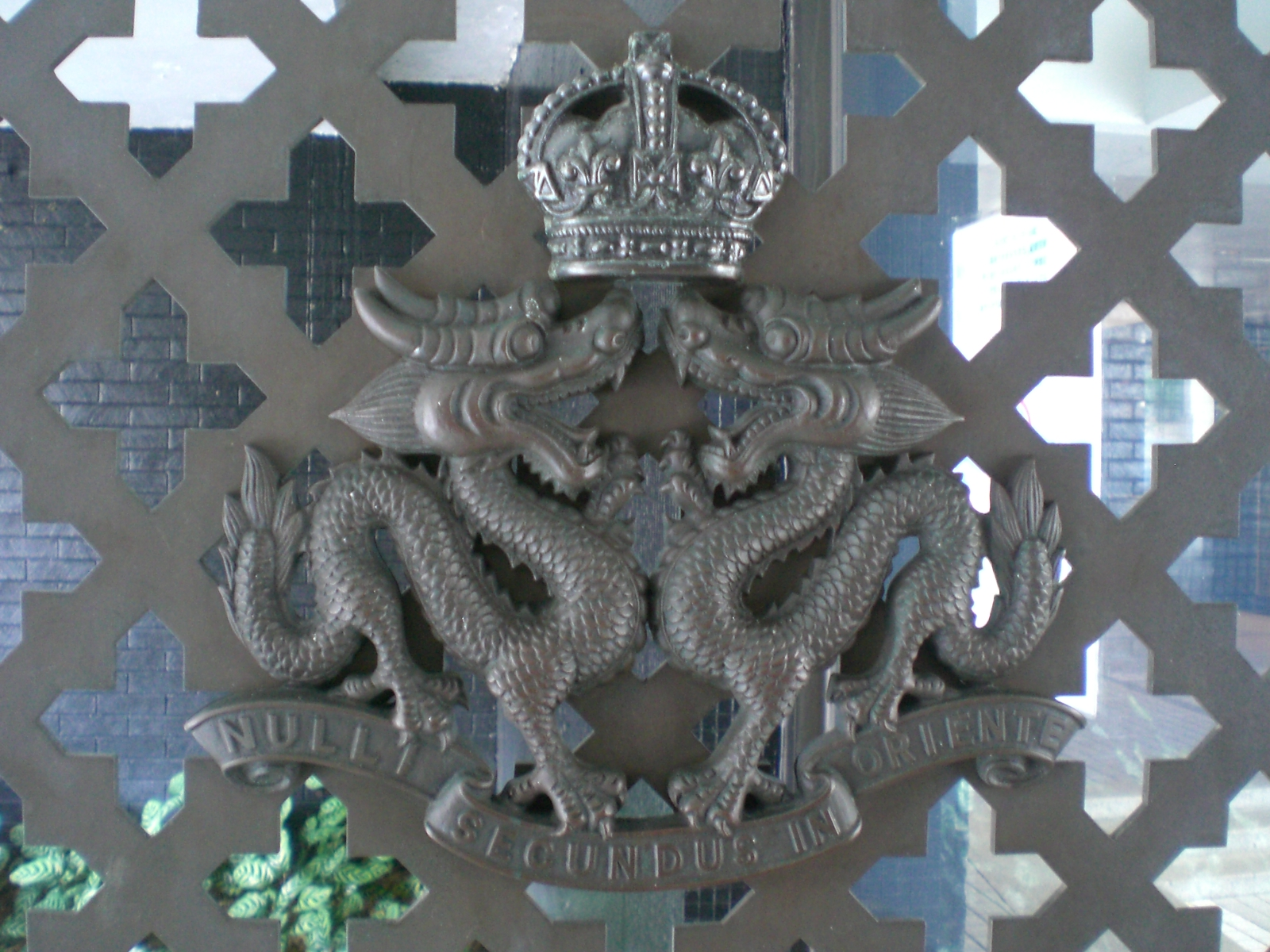 Dragons - 愛丁堡廣場香港大會堂紀念花園City Hall, Hong Kong, Edinburgh Place